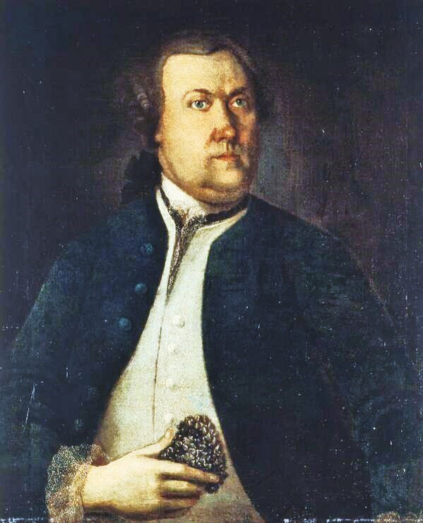 Portrait of an unnamed Royal Academy of Turku professor, probably by Johann Georg Geitel, 1764. The person is commonly assumed to be Pehr Kalm (1716–1779). According to other theory, it might be Pehr Adrian Gadd (1727–1797) or someone else. [1], [2]